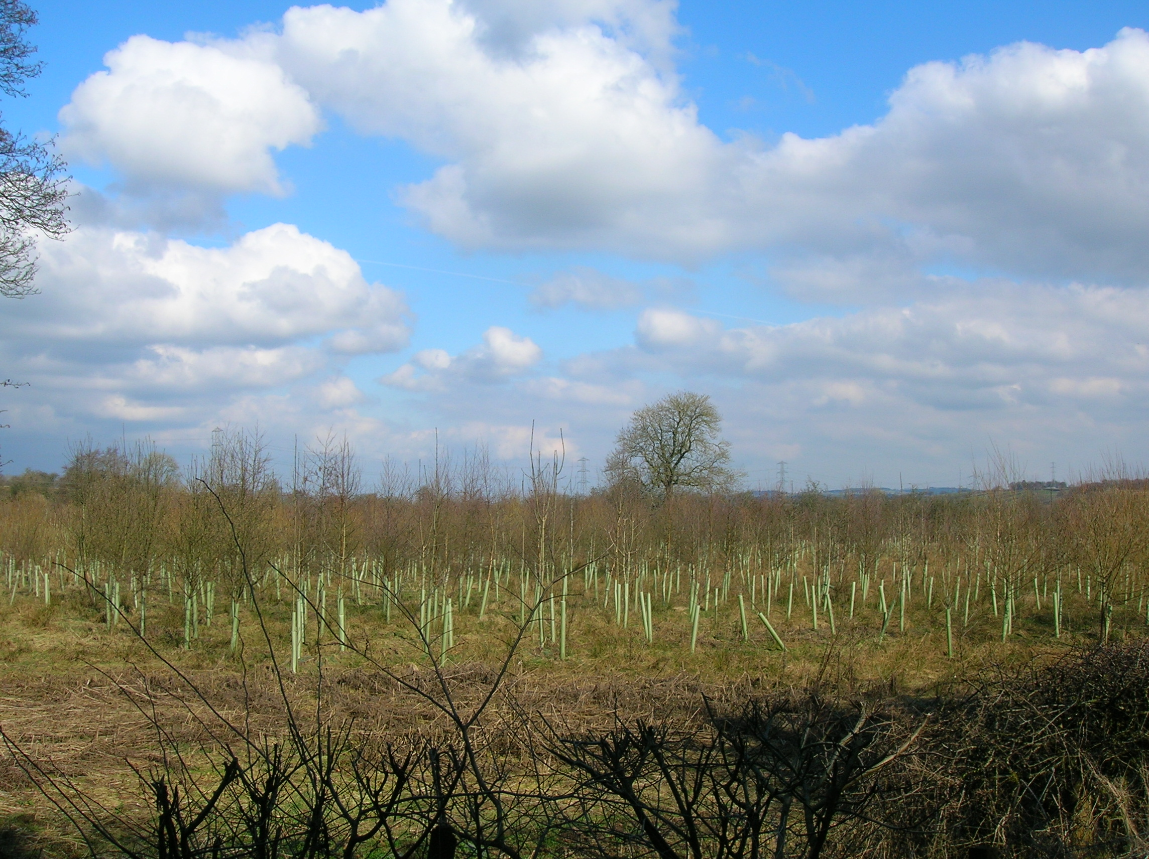 Tree planting at Pitcon in the area of old ironstone pits. Drakemyre, North Ayrshire, Scotland.